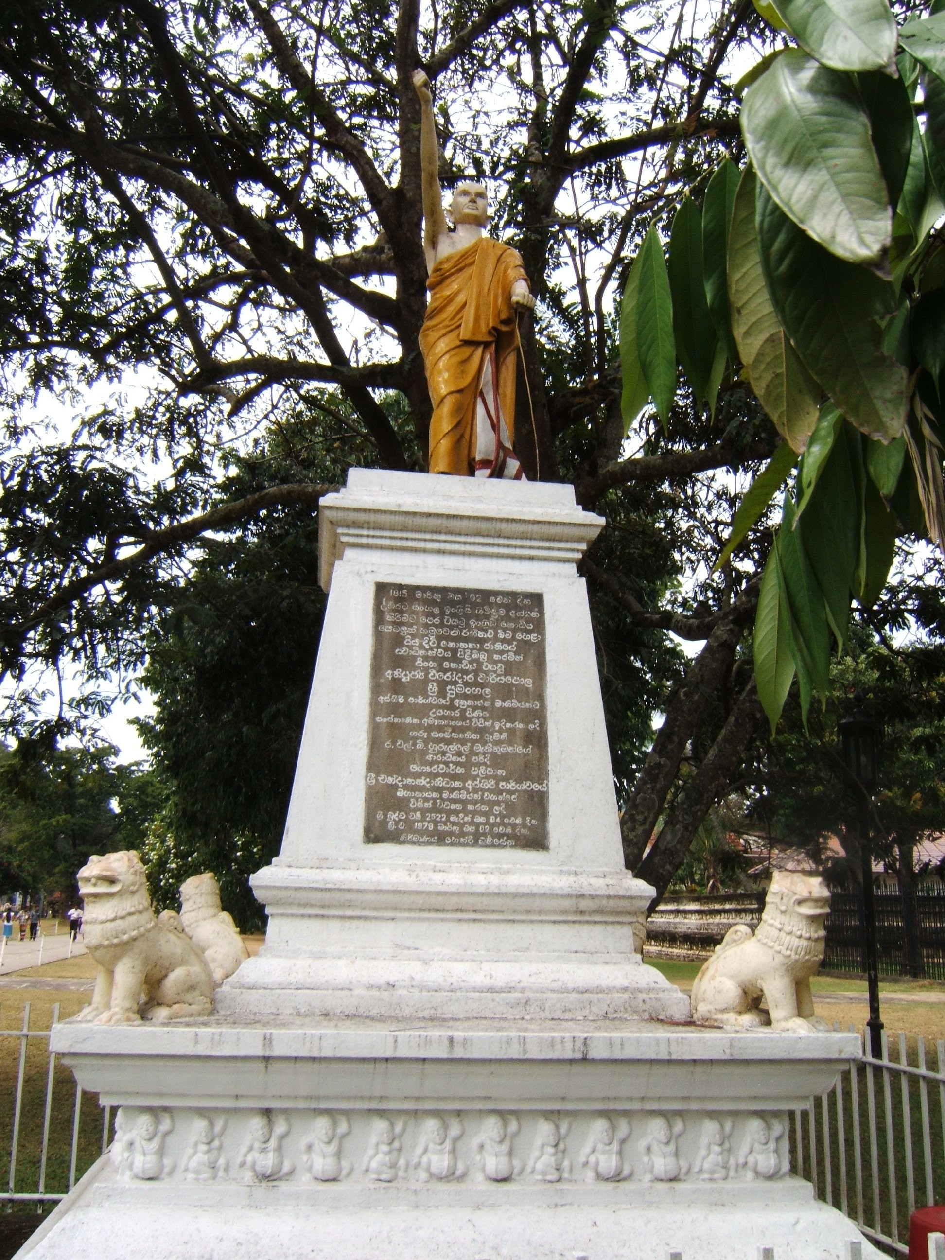 Statue of Most Venerable Wariyapola Sri Sumangala Maha Thera